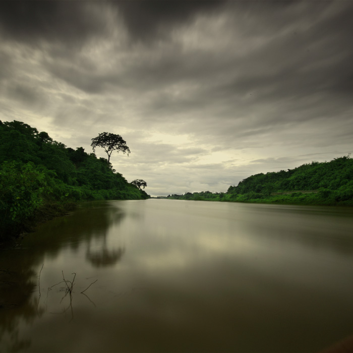 Original caption: This was taken at Olinagar border side area. On the right, indian hills and on the left, where I was standing was bangladesh.